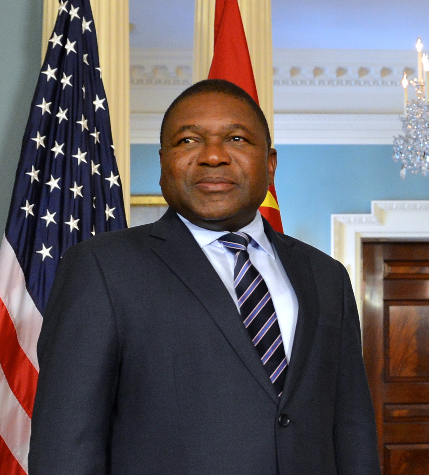 Mozambique President in Washington